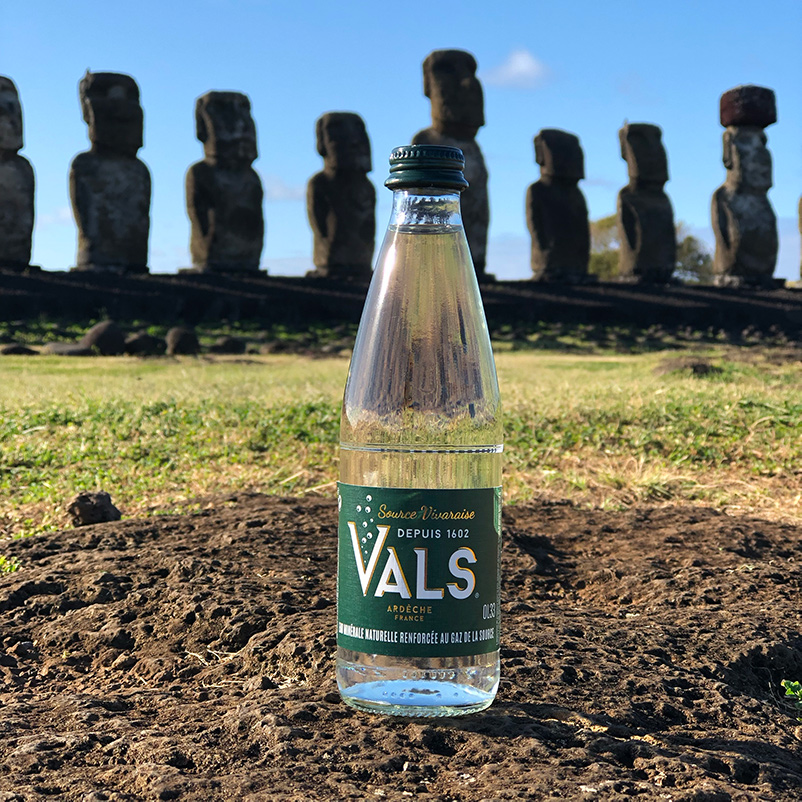 Vals sur le site de Tongariki (Ile de Pâques), face aux Moaïs.